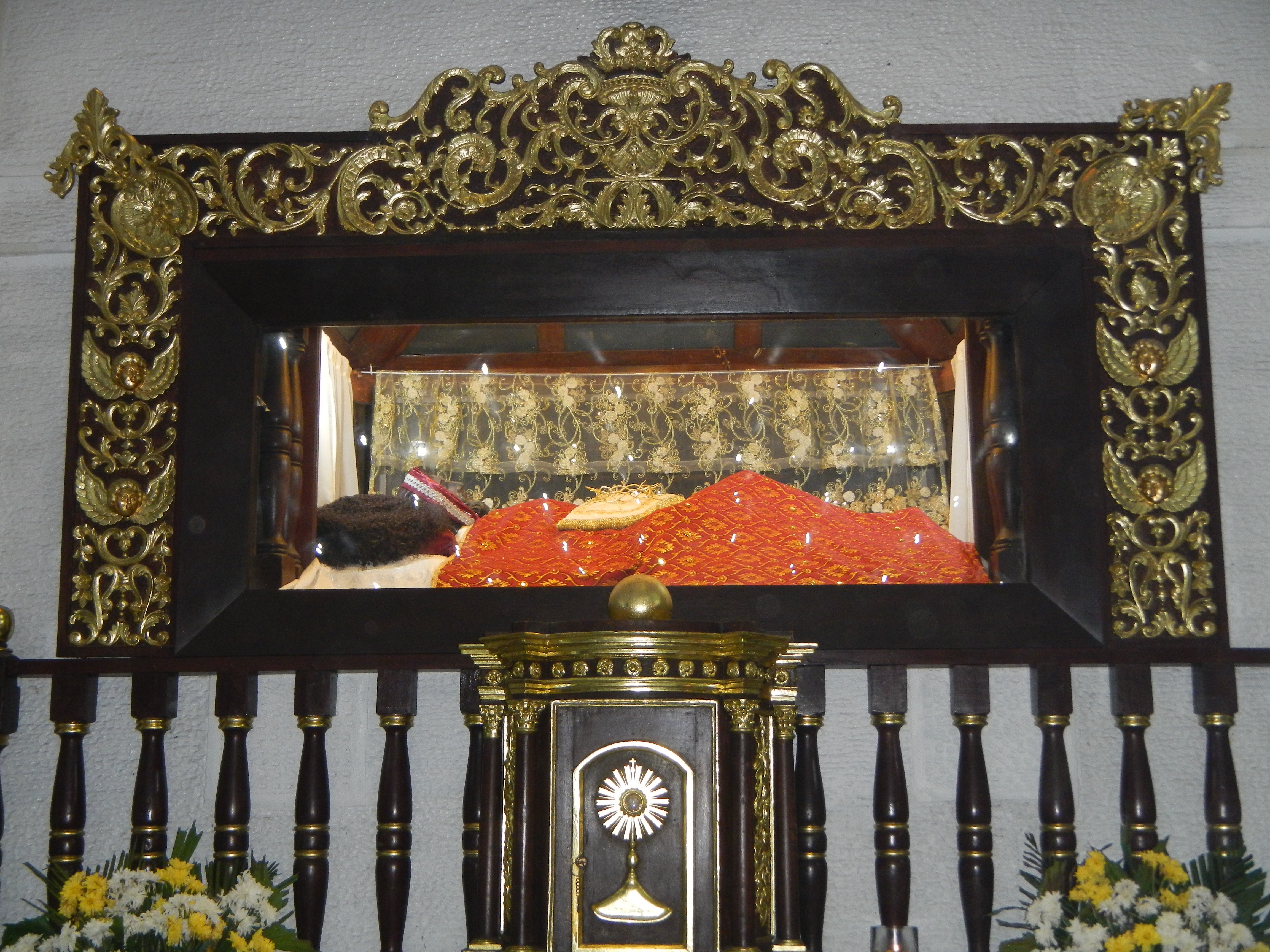 [1]Apung Mamacalulu (Santo Entierro of Angeles City) is an Archdiocesan Shrine found in Barangay Lourdes Sur, Angeles City. It was a statue of a Dead Christ, known as the "Santo Entierro" or the Holy Sepulcher. [2]Angeles, Philippines